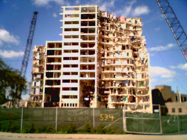 Demolition of the Cabrini-Green public housing units in Chicago, Illinois, in September 2006.